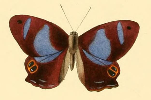 Plate: Dodona & Sospita Sospita tantalus. Figs. 14, 15. Accepted as Abisara tantalus (Hewitson, 1861).